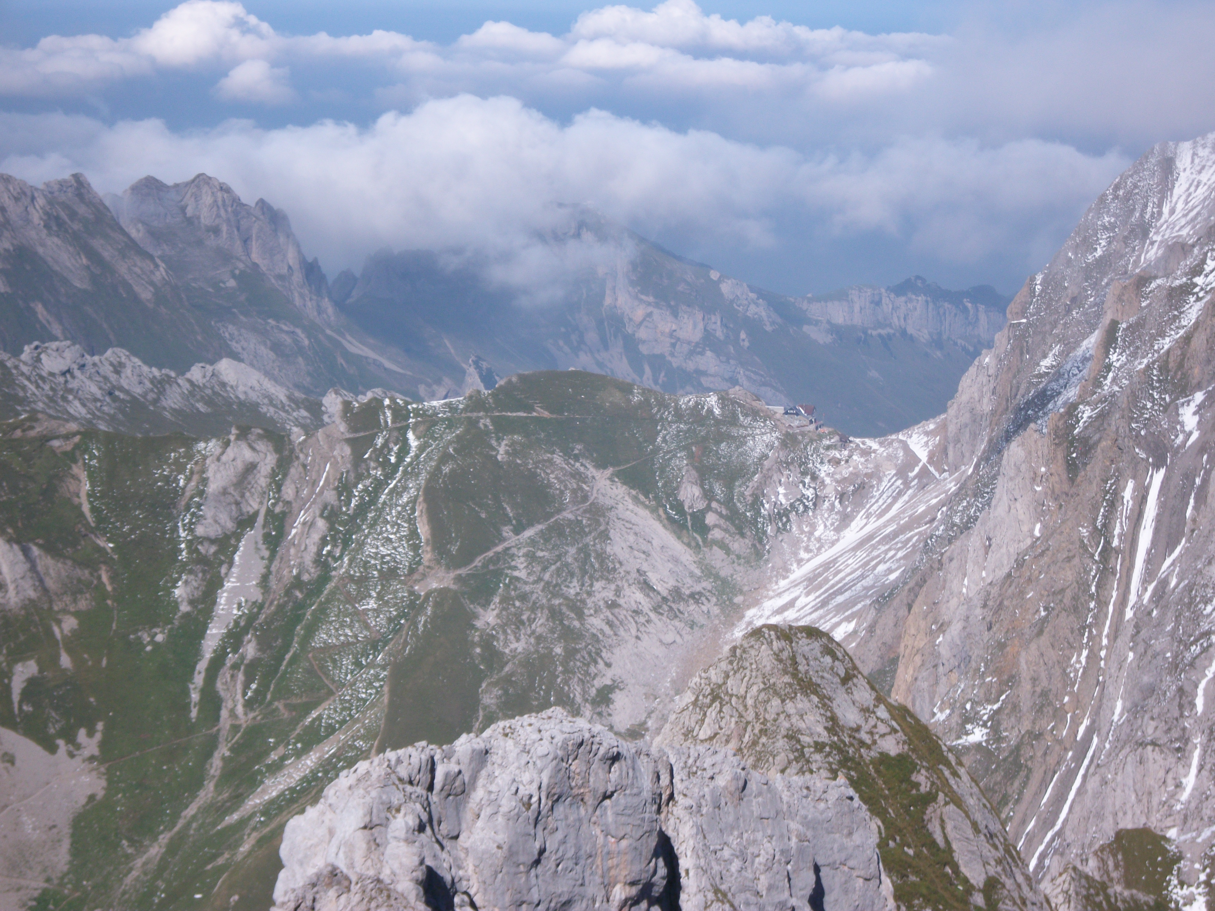 rosteinpass between lisengrat and altmann